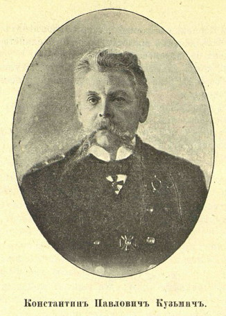 Russian admiral Konstantin Pavlovich Kuzmich